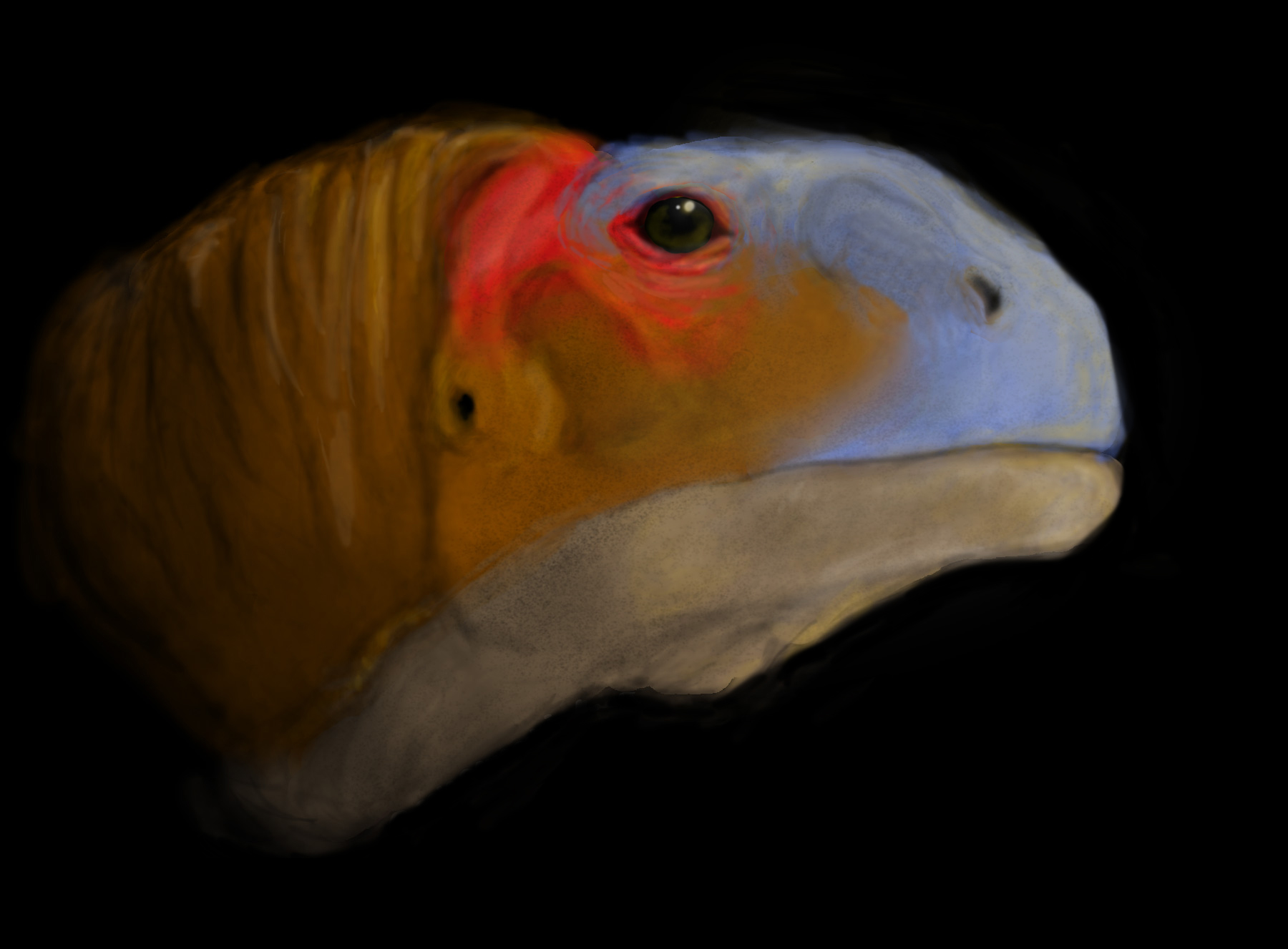 A digital portrait of the early cretaceous titanosaur Malawisaurus dixeyi.